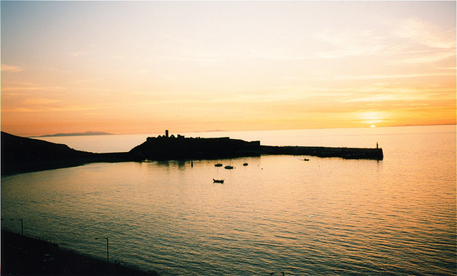 Peel Castle - Sunset. They say Peel is sunset city. The mountains of Mourne (County Down) were easily seen on this August evening.